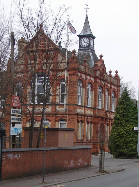 Former Withington Town Hall This Grade II listed building is now used as commercial offices. It is in the Albert Park conservation area. Manchester City Council's description of the conservation area tells us: "Withington Town Hall, originally the local Board of Health offices, was built in buff brick with richly decorated dressings of red brick and terracotta. These form elliptical arches over the first floor windows. The parapet is decorated with finials and has a central gable, behind which is a clock turret surmounted by a weathervane."